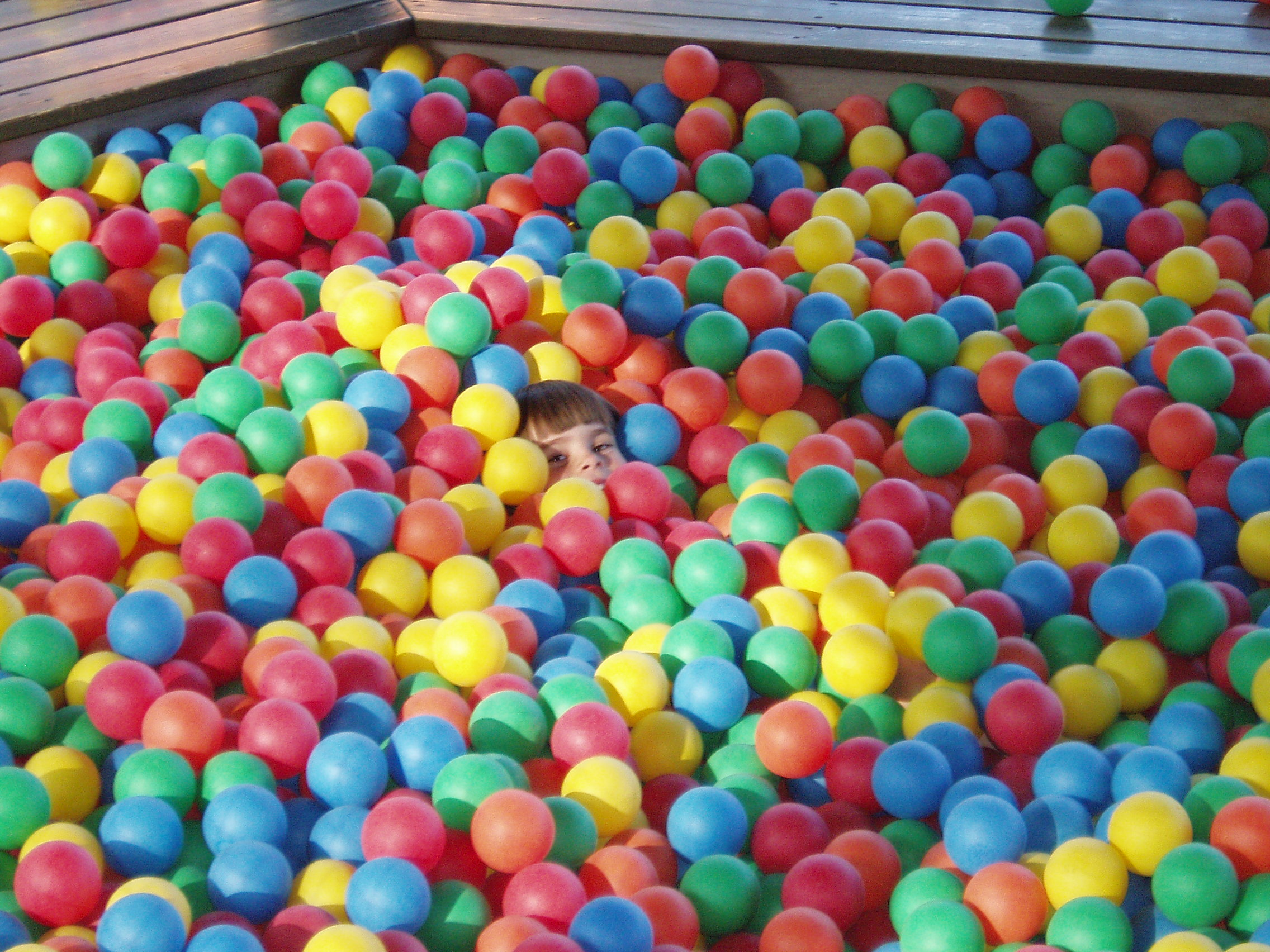 Ballpit in Joboland